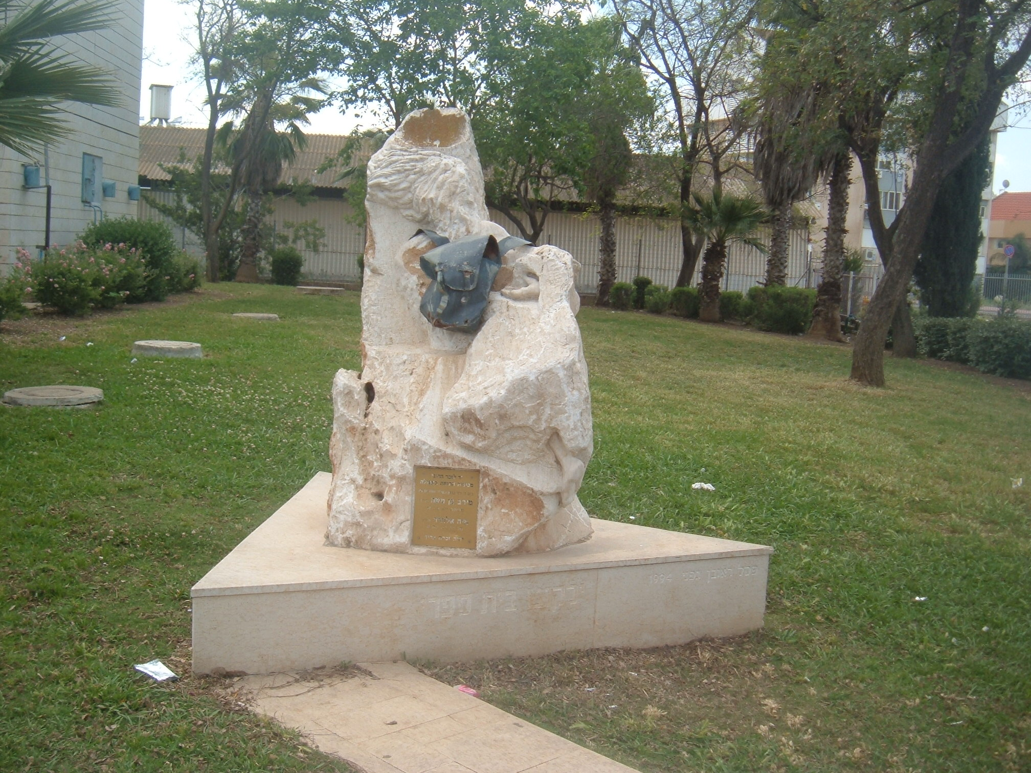 monument in memory of the students of Ben Gurion High school in Afula murdered on a suicide bombing in April 1994. sculpture by Reuven Gafni אנדרטה לזכר תלמידות בית הספר התיכון "בן גוריון" בעפולה שנרצחו בפיגוע מכונית התופת בעפולה באפריל 1994, מוצבת בחצר בית הספר, אמן - ראובן גפני